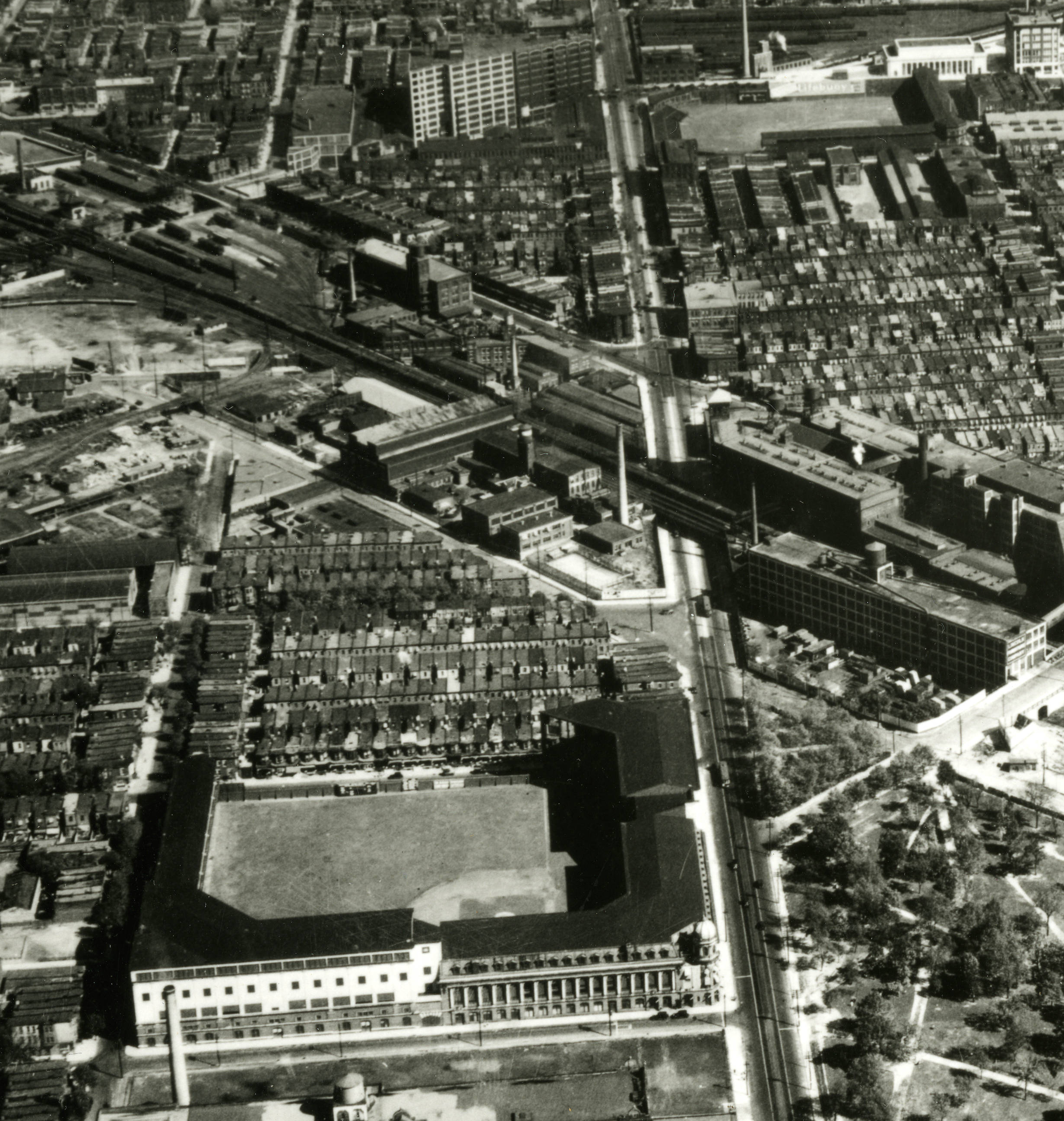 Aerial photograph of North Philadelphia in September 1929, showing Shibe Park at the bottom left and the Baker Bowl at the top right. The camera is pointed slightly south of east.